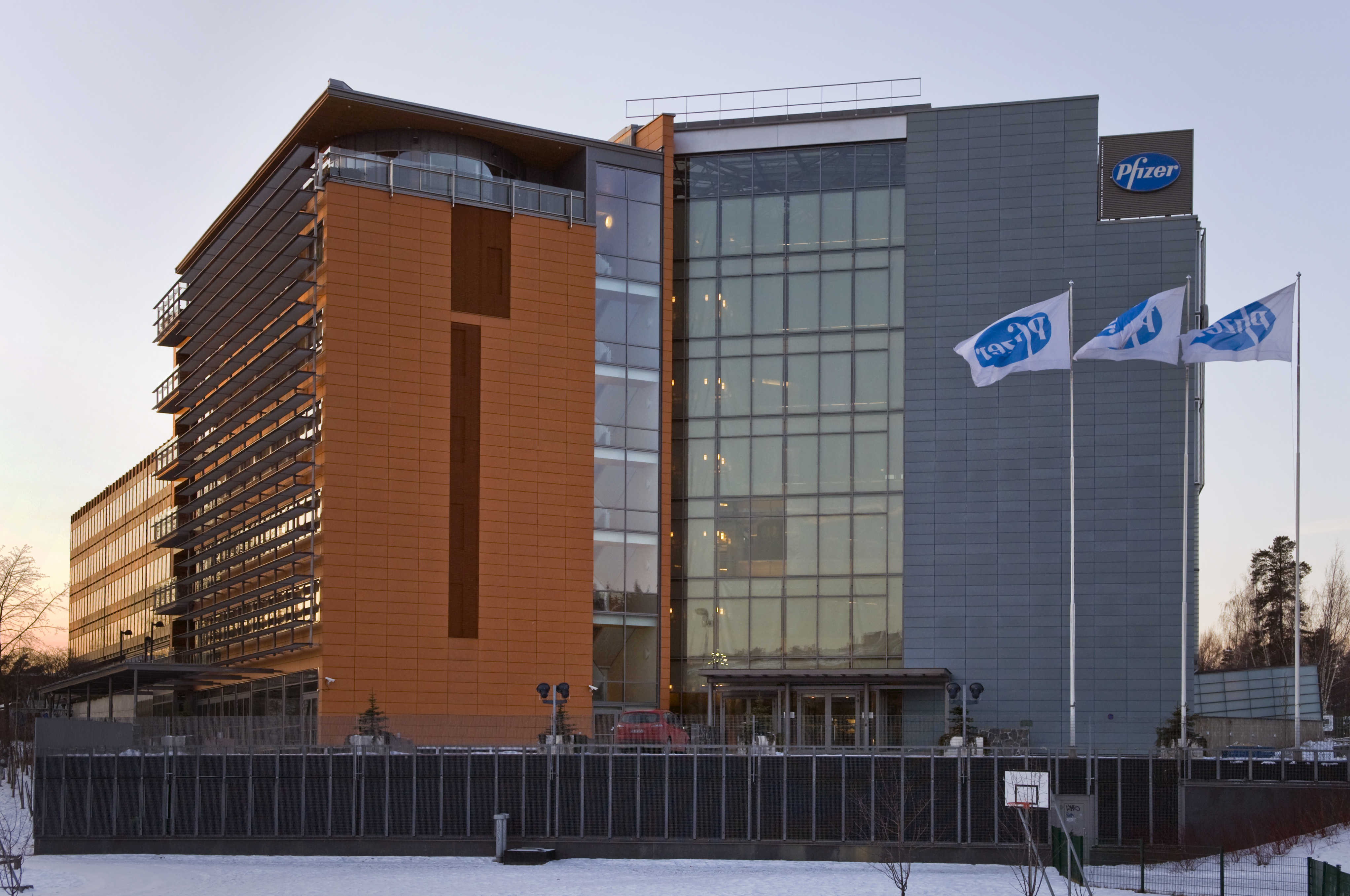 The regional headquarters of Pfizer in Vanha Munkkiniemi, Helsinki, Finland.